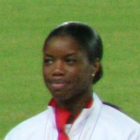 World Athletics Championships 2007 in Osaka - Victory ceremony for the women's 100 metres hurdles